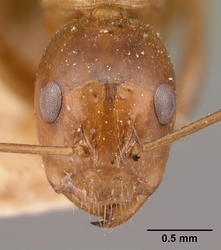 Head view of ant Camponotus christi specimen casent0101435.